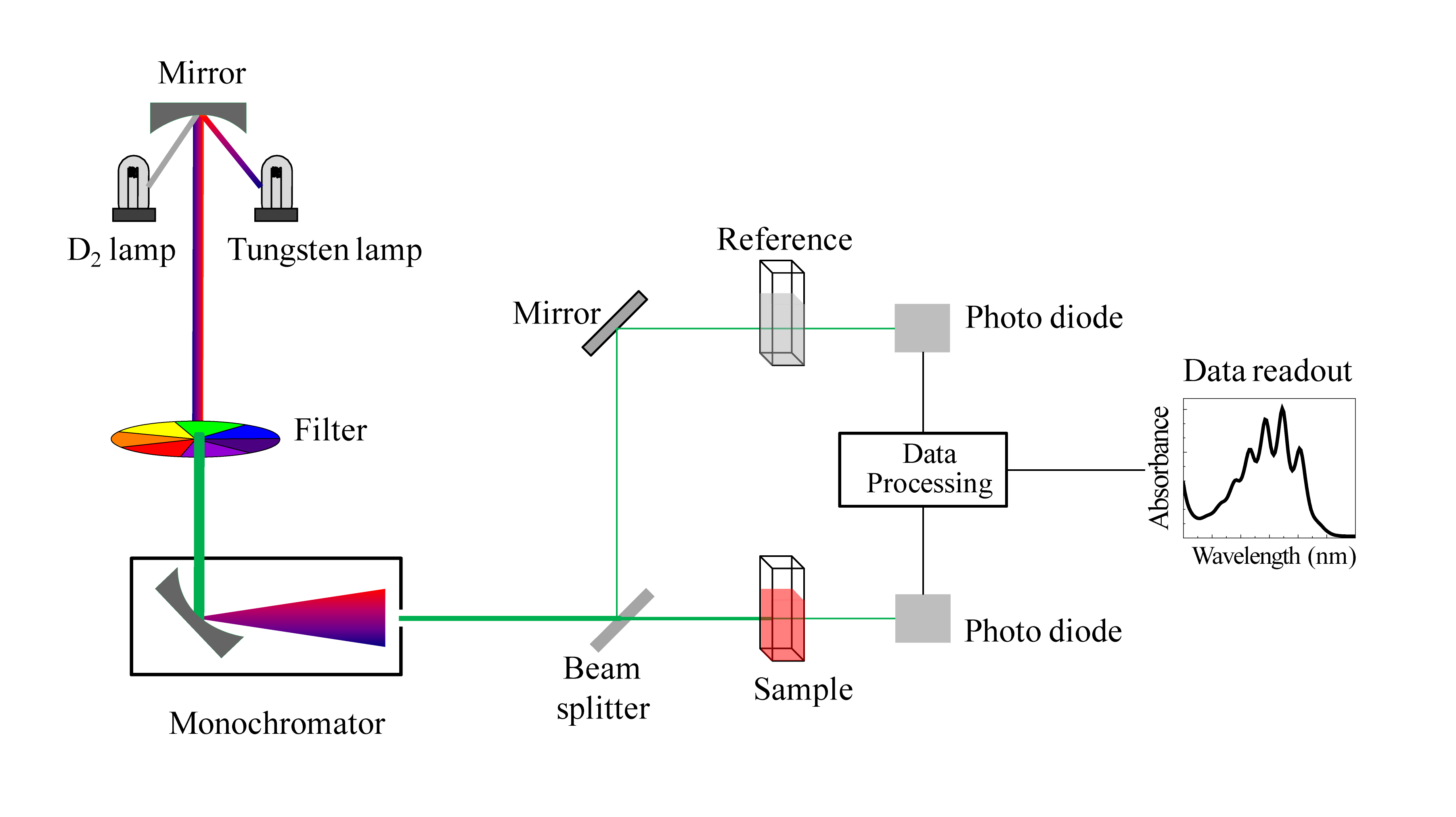 Schematic of UV- visible spectrophotometer